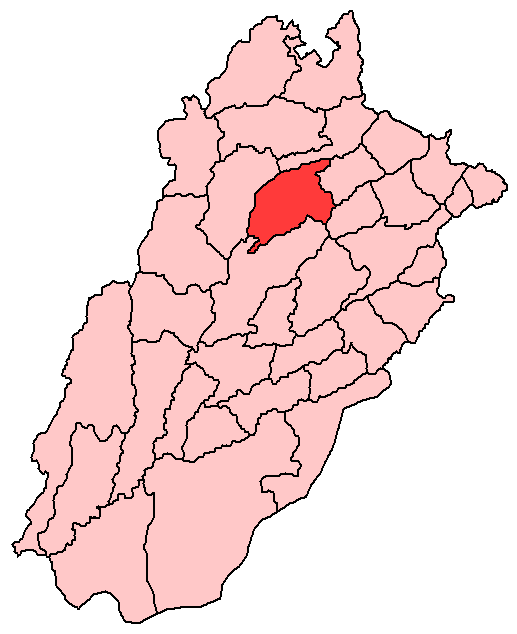 Map of Punjab Pakistan with Sargodha District highlighted.